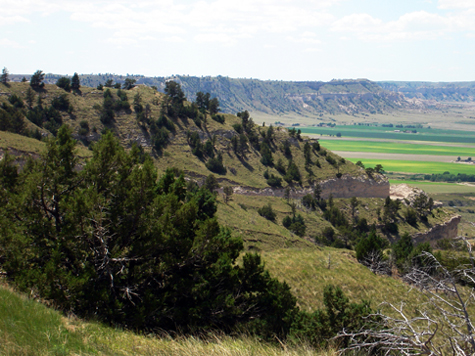 Ponderosa pines seen from Summit in Scotts Bluff National Monument, Nebraska, USA